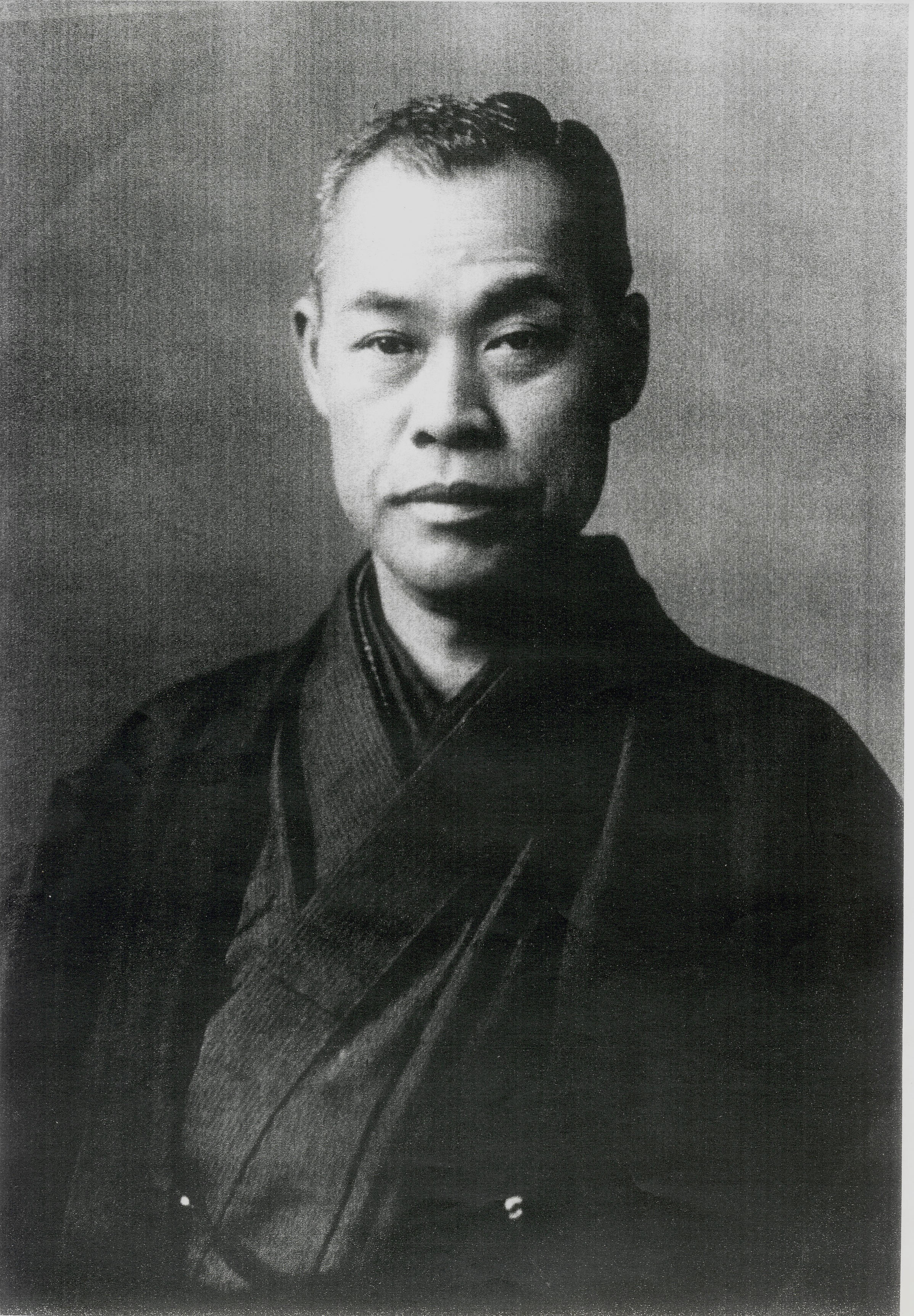 portrait picture of kudaime Isikawa Touhachi